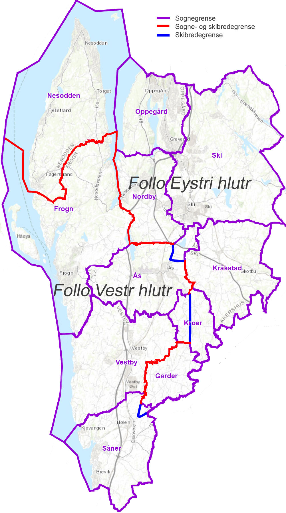 Military organisation in parts of medieval Norway in the area of Follo, Akerhus.